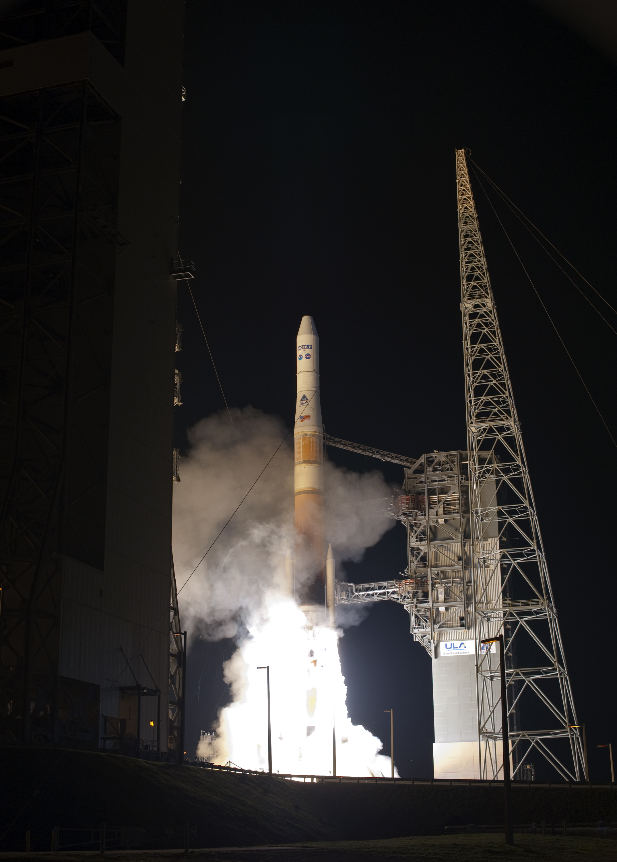 An exhaust cloud forms at Launch Complex 37 on Cape Canaveral Air Force Station in Florida as the United Launch Alliance Delta IV rocket carrying NASA's GOES-P meteorological satellite lifts off at 6:57 p.m. EST. GOES-P, the latest Geostationary Operational Environmental Satellite, was developed by NASA for the National Oceanic and Atmospheric Administration, or NOAA. The GOES-P spacecraft will be placed in a 22,300-mile-high geosynchronous orbit where it will appear to hover over a single point on Earth. The spacecraft is outfitted with a complex suite of observation instruments and cameras so it can accurately report on weather and climate conditions on Earth.